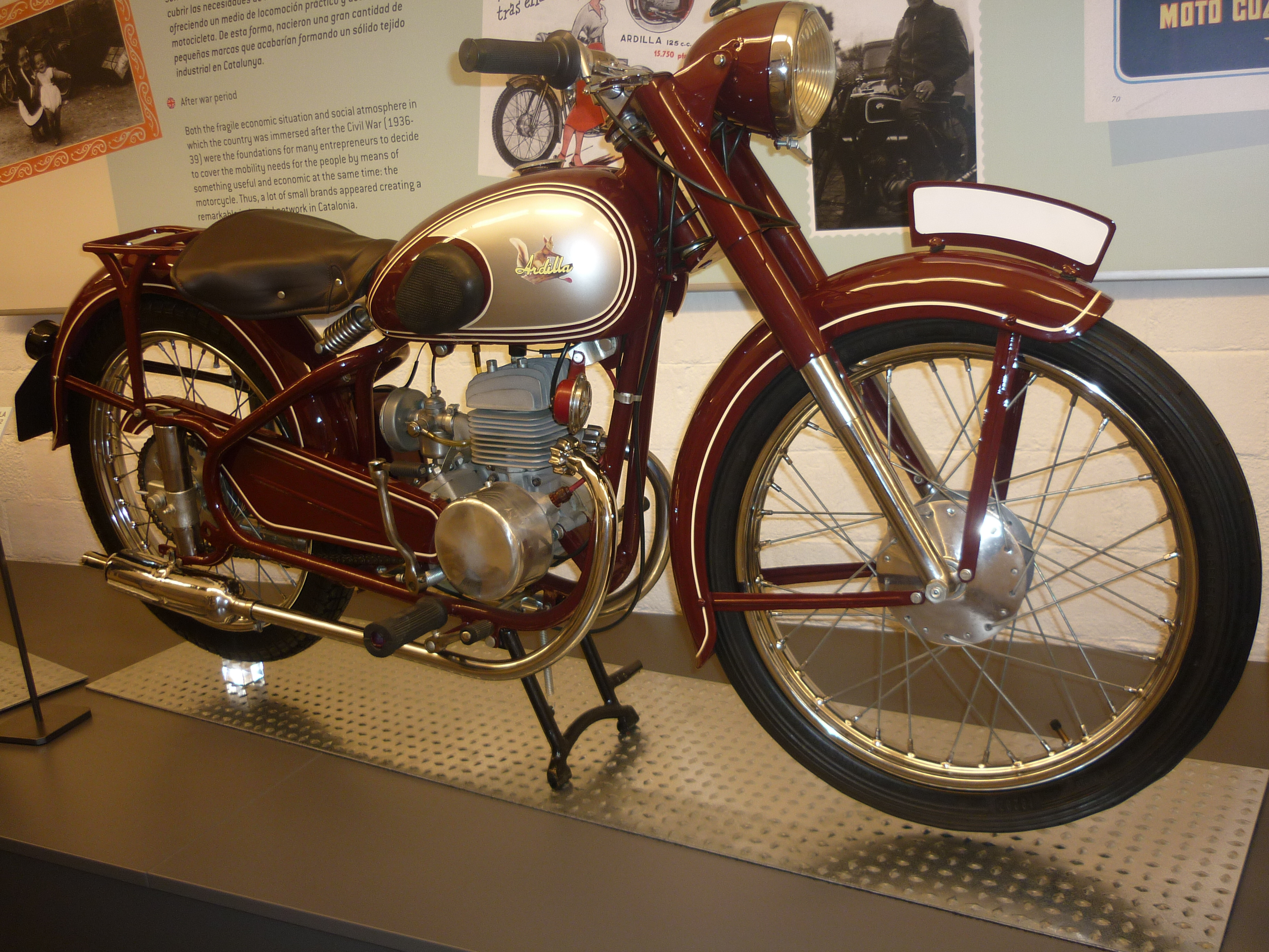 Ardilla Model 52 125cc (1952).Museu de la Moto de Barcelona (Catalonia).